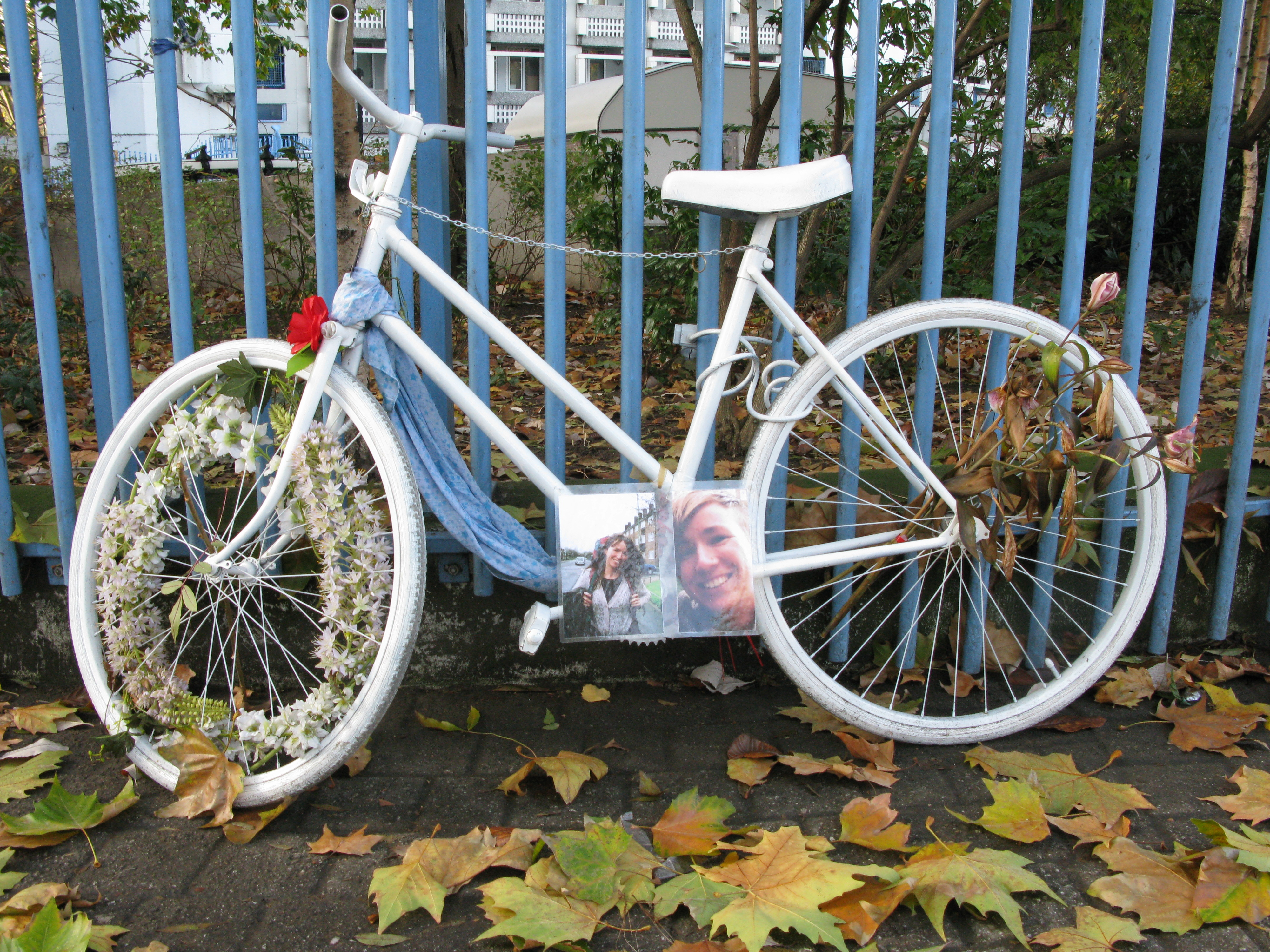 White bicycle chained to railings as a memorial. No mention of Ghostbikes but the same idea.